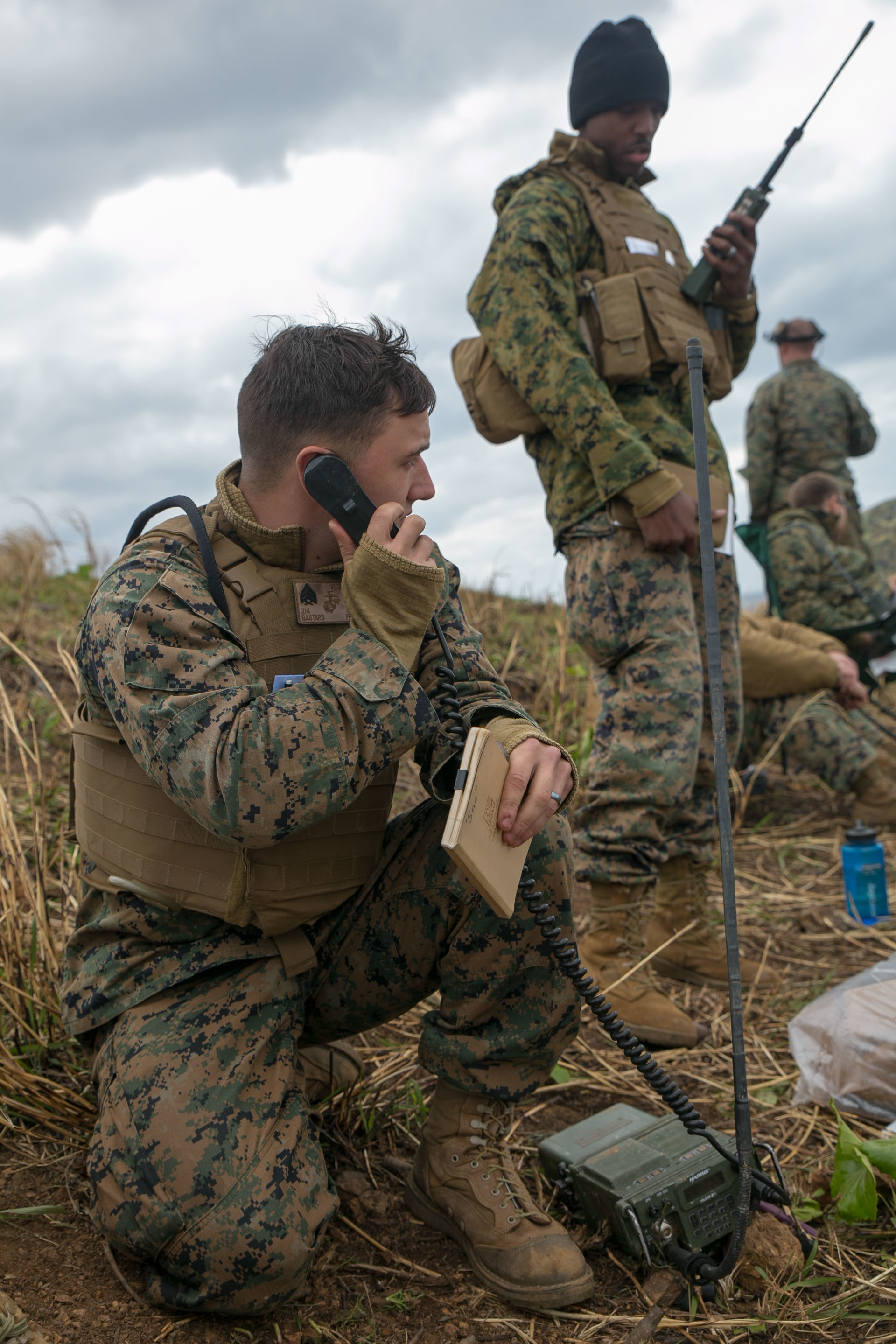 U.S. Marine Sgt. Jacob Flurry, a joint terminal attack controller, directs aircraft conducting simulated close air support Jan. 15 at Idesuna-Jima range W-174, Okinawa, Japan. Flurry is from Damascus, Oregon and is with Battalion Landing Team 2nd Battalion, 4th Marines, 31st Marine Expeditionary Unit. The Marines participated in the four-day TACP to enhance their ability to call for close air support and build relationships with the pilots they direct. (U.S. Marine Corps photo by Cpl. Abbey Perria/Released)